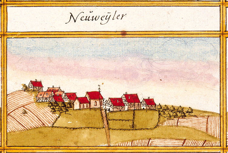 View of Neuweiler, Weil im Schönbuch, from the forest register books created by Andreas Kieser